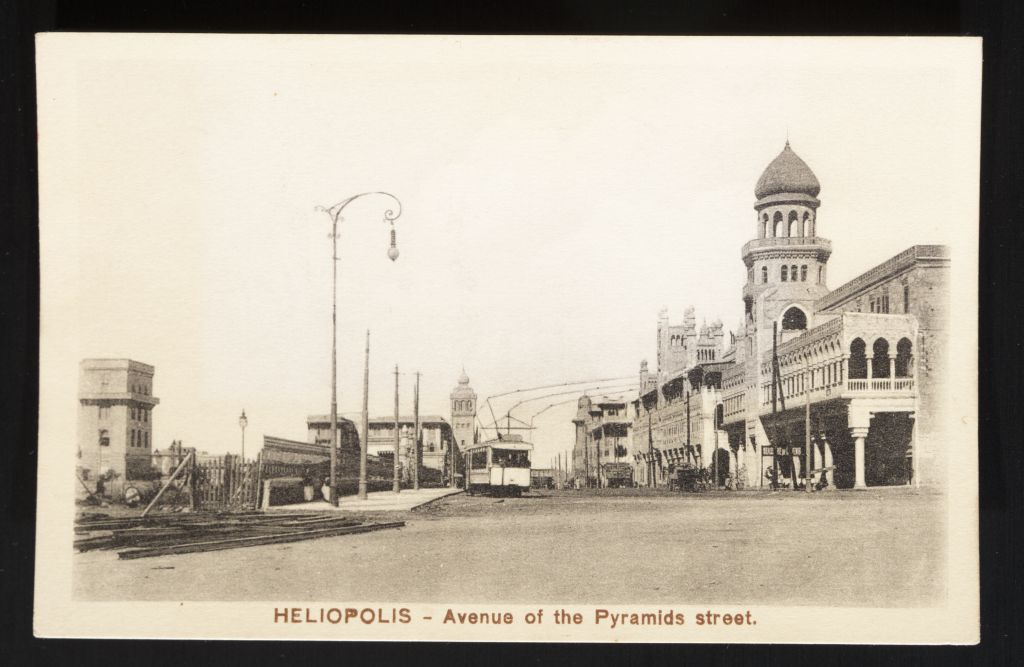 Street scene with buildings on right, streetcar coming down the street